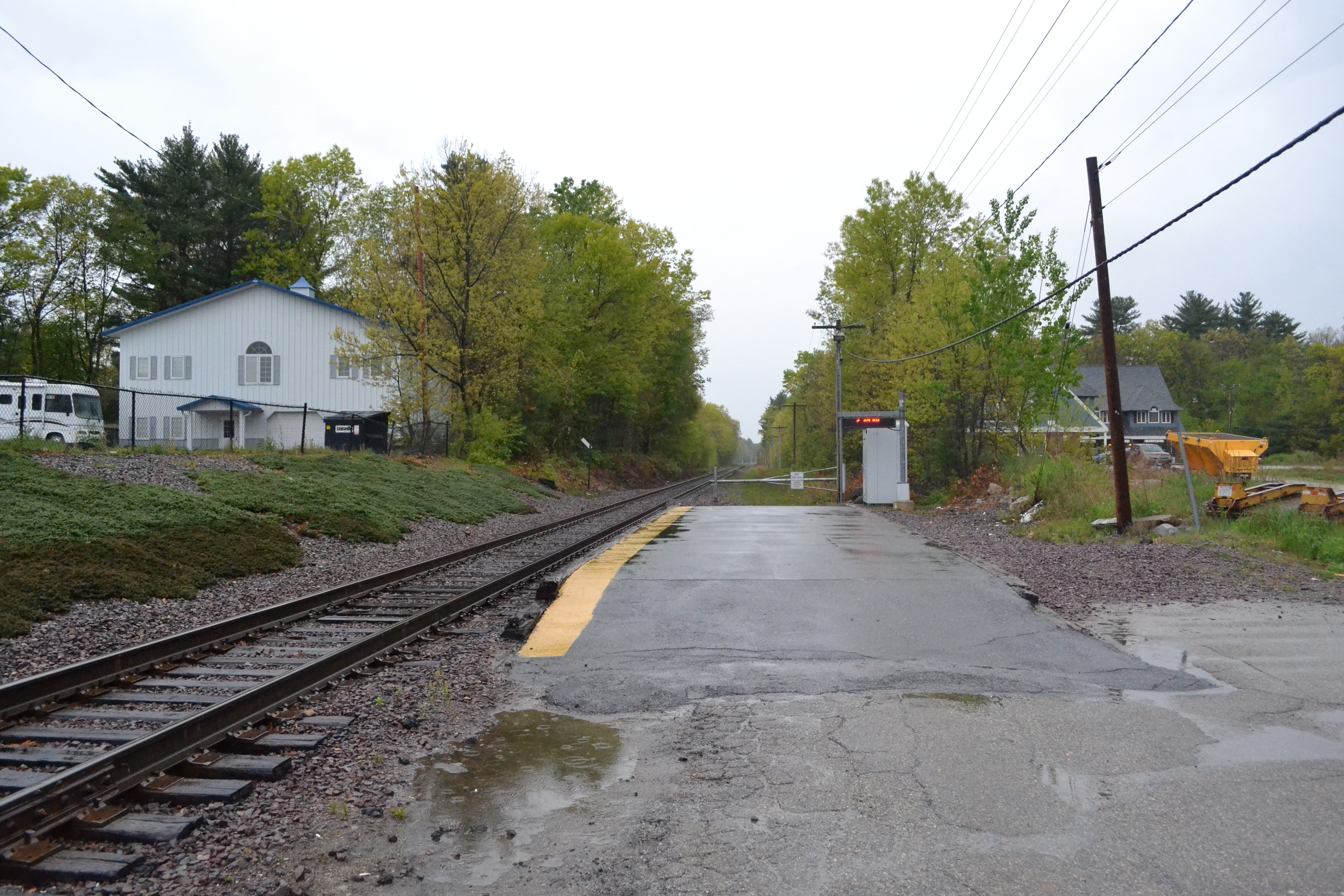 North Wilmington is among the barest stations on the MBTA system, with nothing but a simple low platform and an overhead sign. The station is one of the only on the system that does not have the classic purple sign.